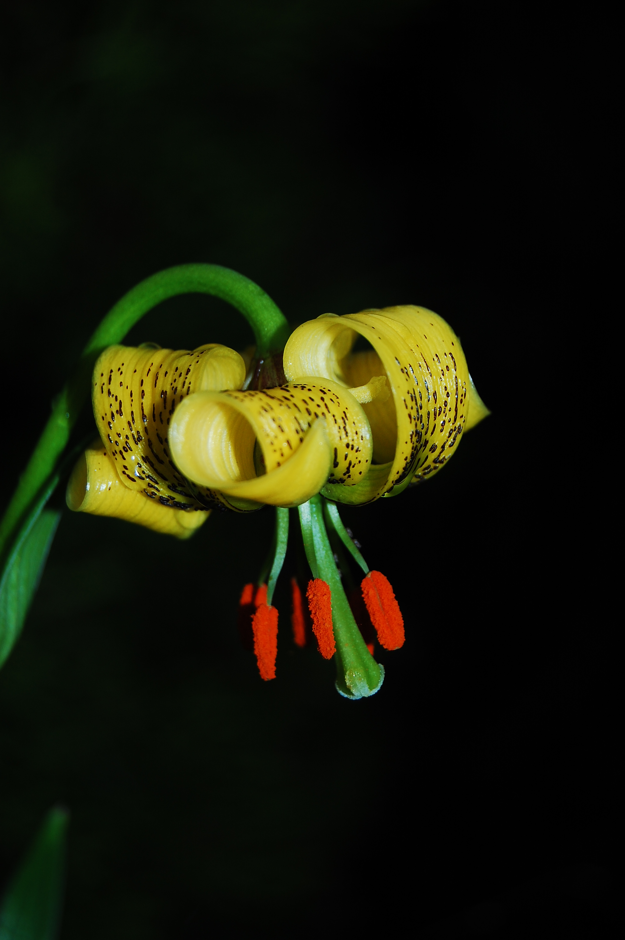 A lilly in my garden, by Kyle Munro